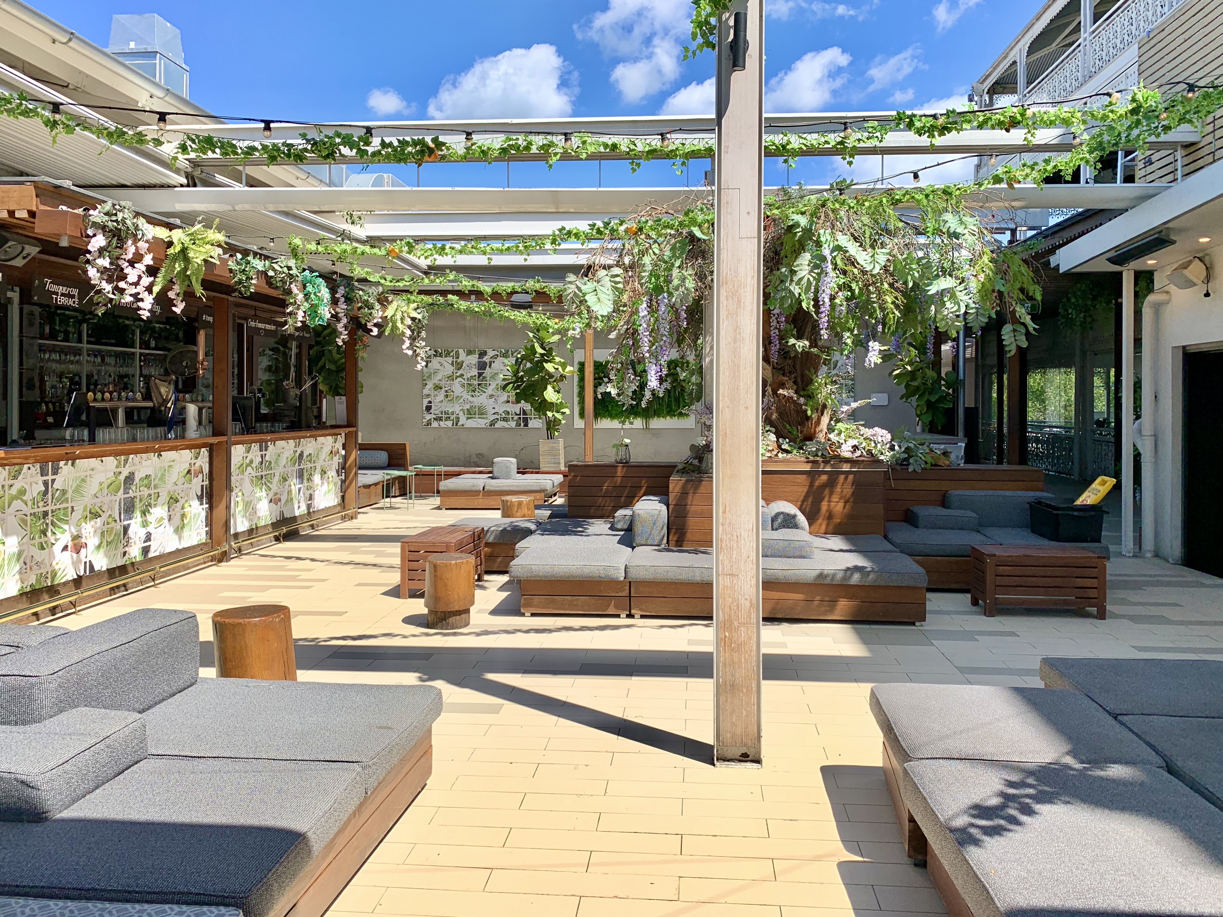 Regatta Hotel, Brisbane, in February 2020